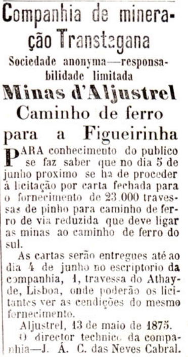 Tender notice of the Companhia de Mineração Transtagana (Transtagana Mining Company) for pinewood sleepers, to be used on the construction of a narrow gauge railway between the Aljustrel Mines and Figueirinha Train Station, in the Caminho de Ferro do Sul (Southern Railway), in Portugal. This image was published on the Diario Illustrado newspaper No. 925, of 23rd May 1875, and scanned by the Biblioteca Nacional de Portugal.